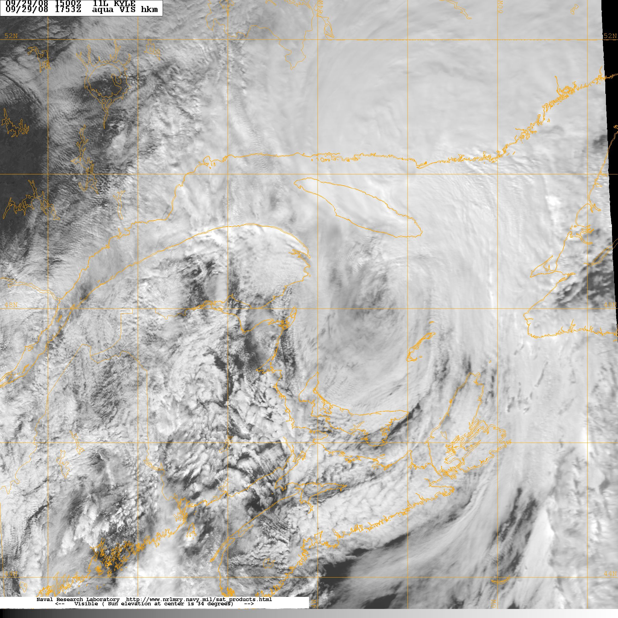 The extratropical remnants of Hurricane Kyle on September 29, 2008